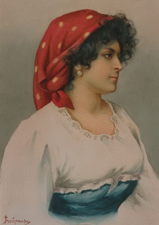 Portrait of Gypsy woman